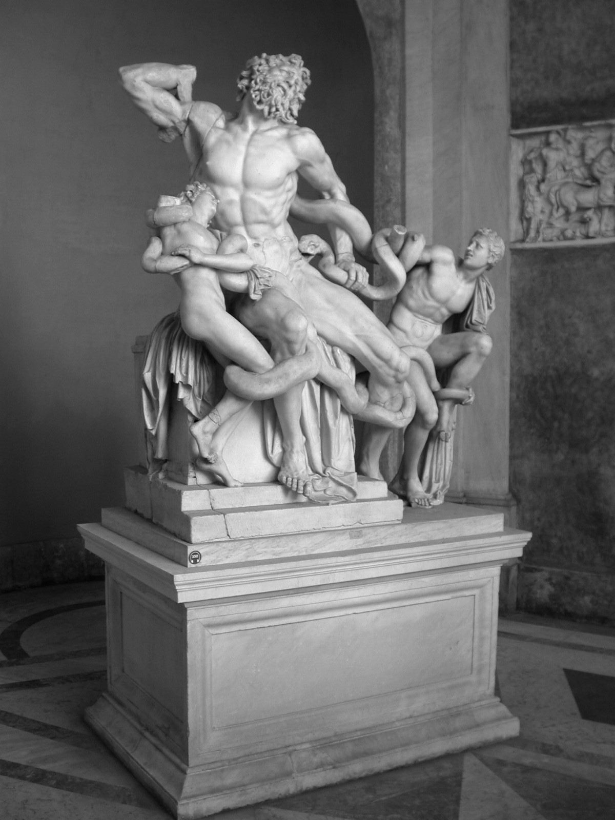 Laocoon Sculpture in the Vatican Museum, Rome. Picture by Benutzer:Fb78.